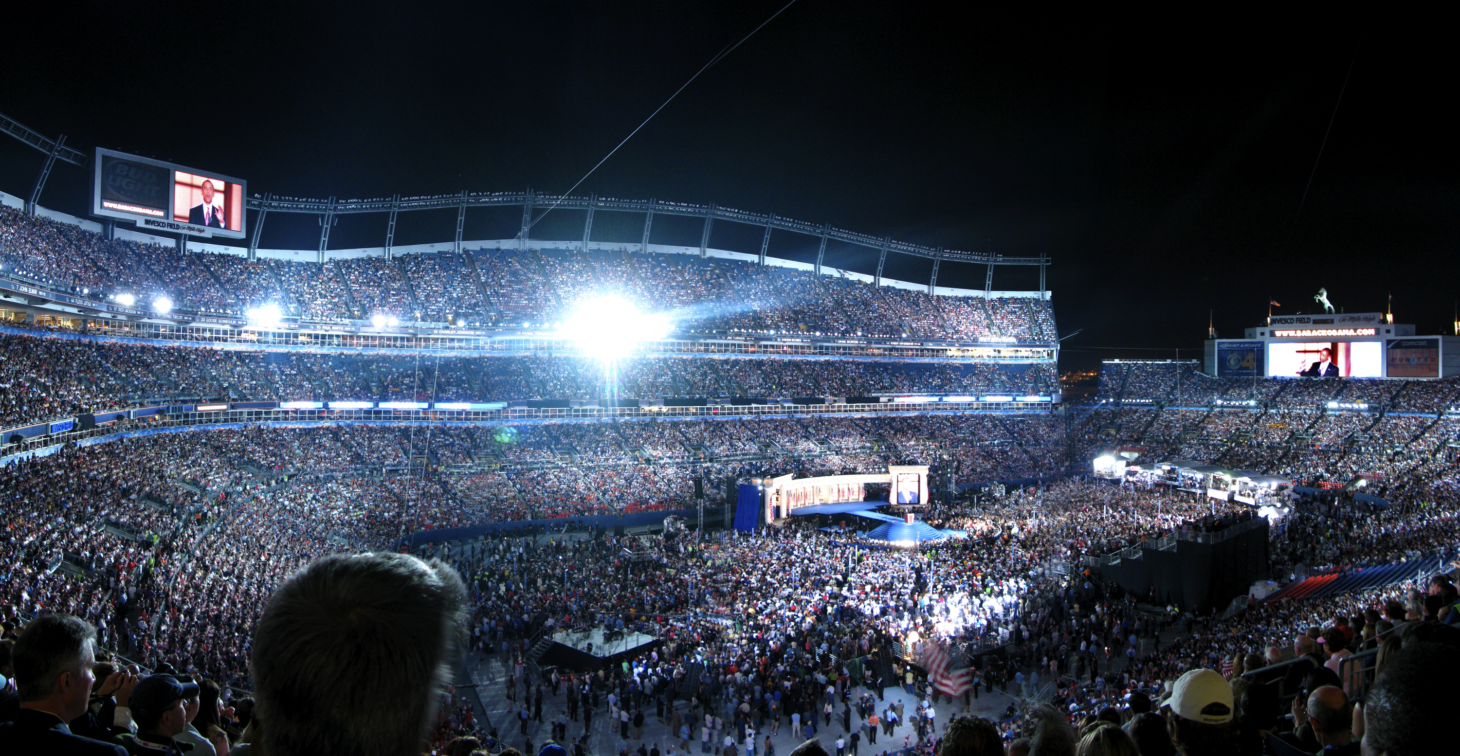 Barack Obama speaks at the 2008 Democratic National Convention at Invesco Field in Denver, Colorado, United States